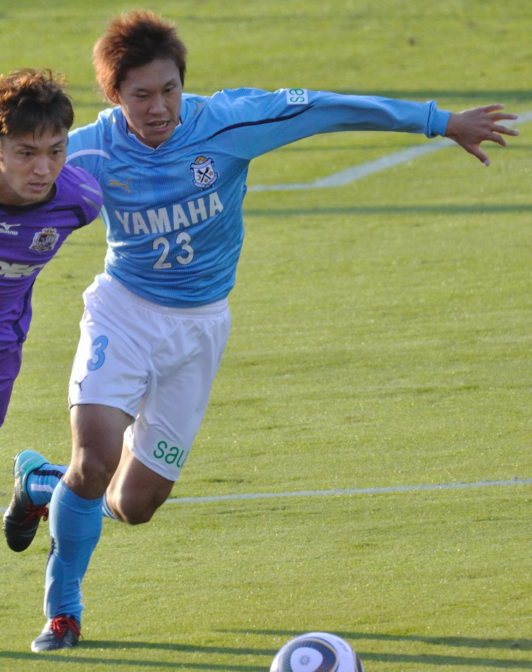 Kosuke Yamamoto cropped from DSC_7717